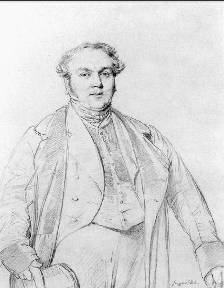 Portrait of Armand Bertin. Graphite on paper, 31.2 x 22.8 cm